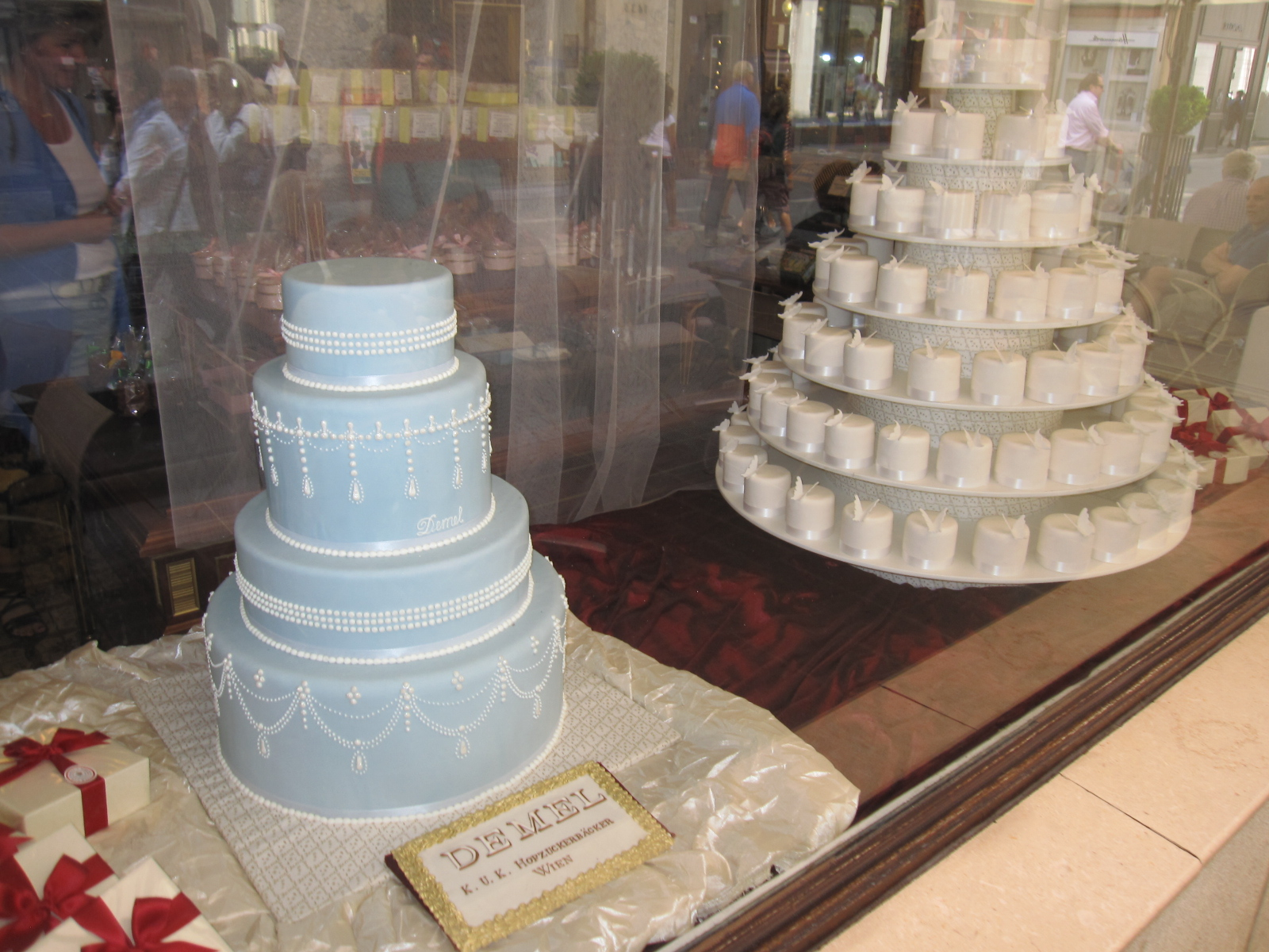 Wedding cakes at Cafe Demel in Vienna.